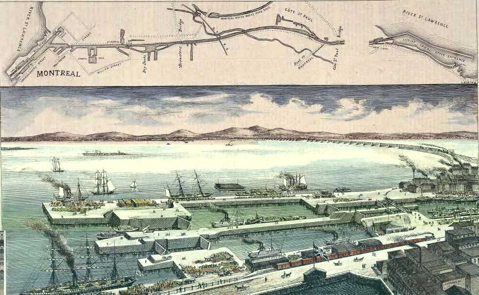 Print, Lachine Canal improvements, Montreal, 1877, 23.2 x 35.2 cm